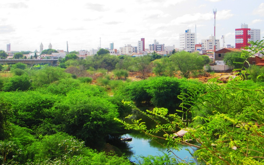 Centro de Caicó, RN.